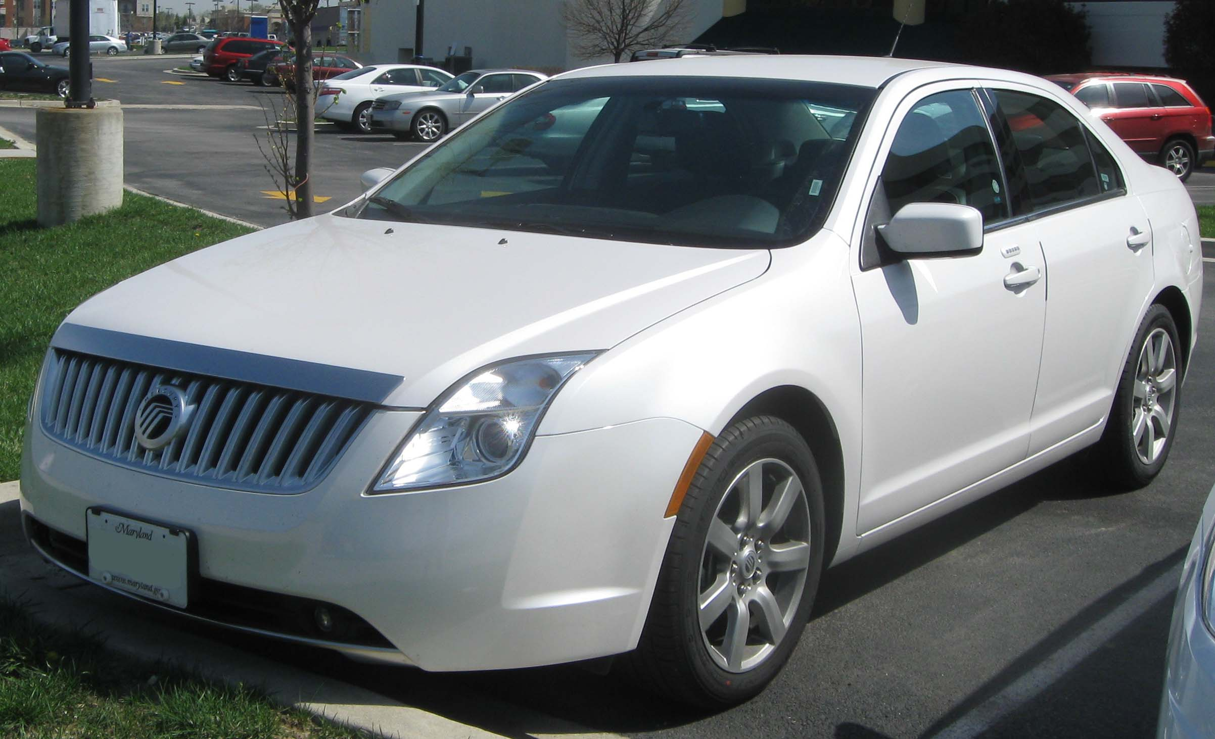 2010 Mercury Milan photographed in College Park, Maryland, USA.